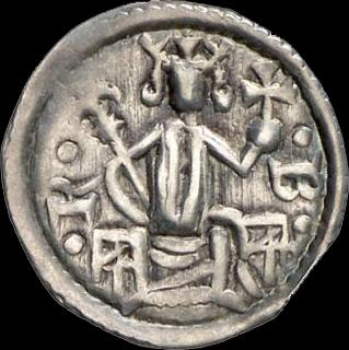 Bracteate (Hungary) Béla III or IV of Hungary (Cat. No.: Huszár 191)